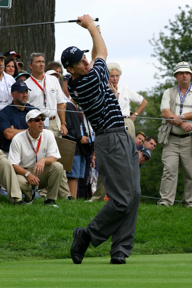 Jim Furyk practicing a day before the 2004 Ryder Cup at the Oakland Hills Country Club in Bloomfield Hills, Michigan.